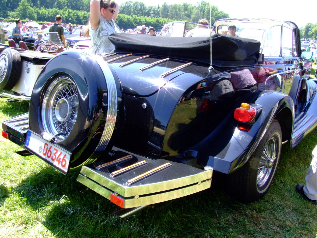 Summary Clenet (Serie 2) Ford V8 Engine 5730 ccm ca. 200 PS 185 Km/h 4-Gang-Overdrive-Automatic-Getriebe Leergewicht: ca.1850 kg Quelle: selbst fotografiert, 06/2006 Fotograf: Späth Chr. Licensing